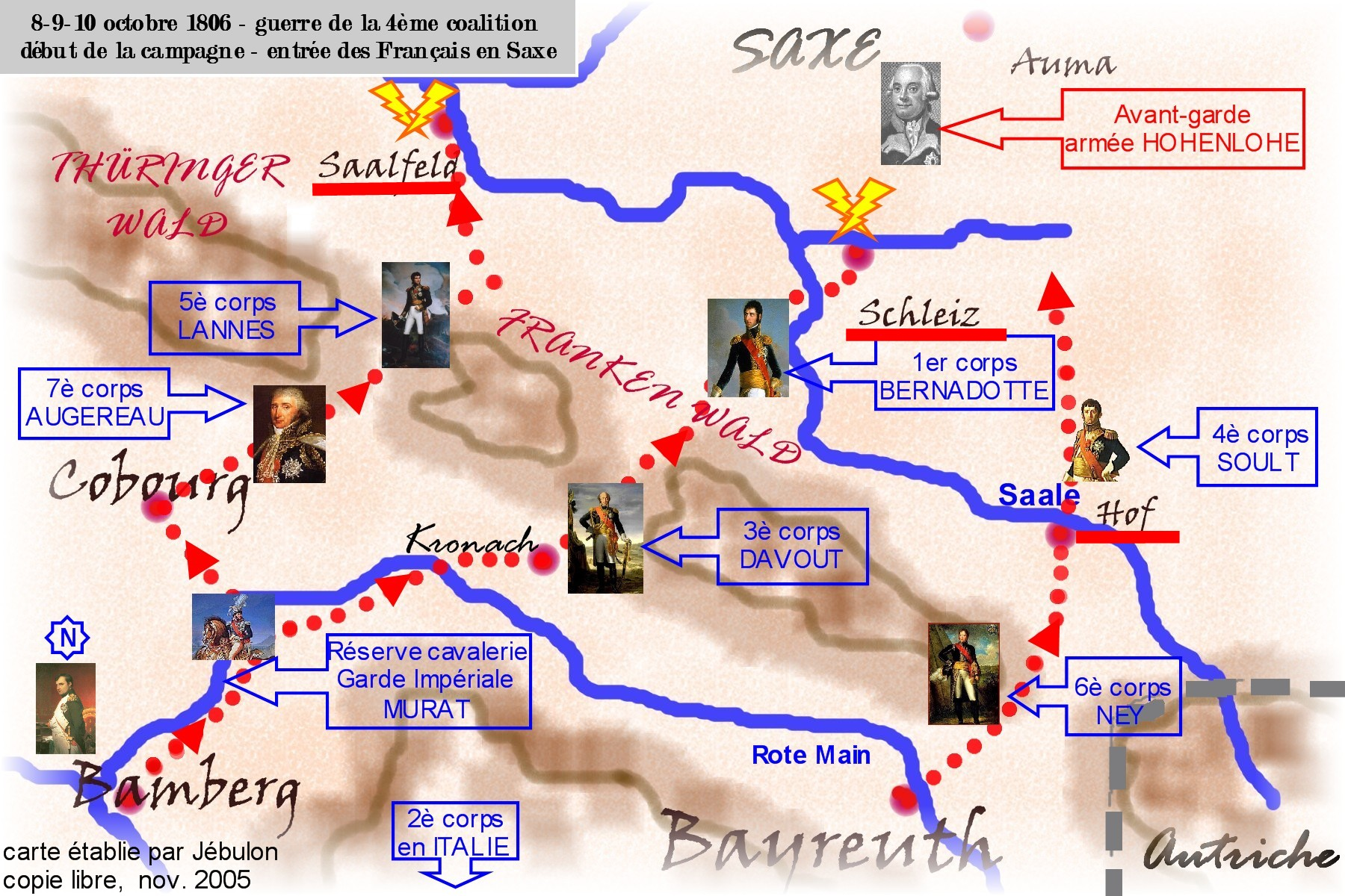 entry of the french army in Saxony, beginning of the war